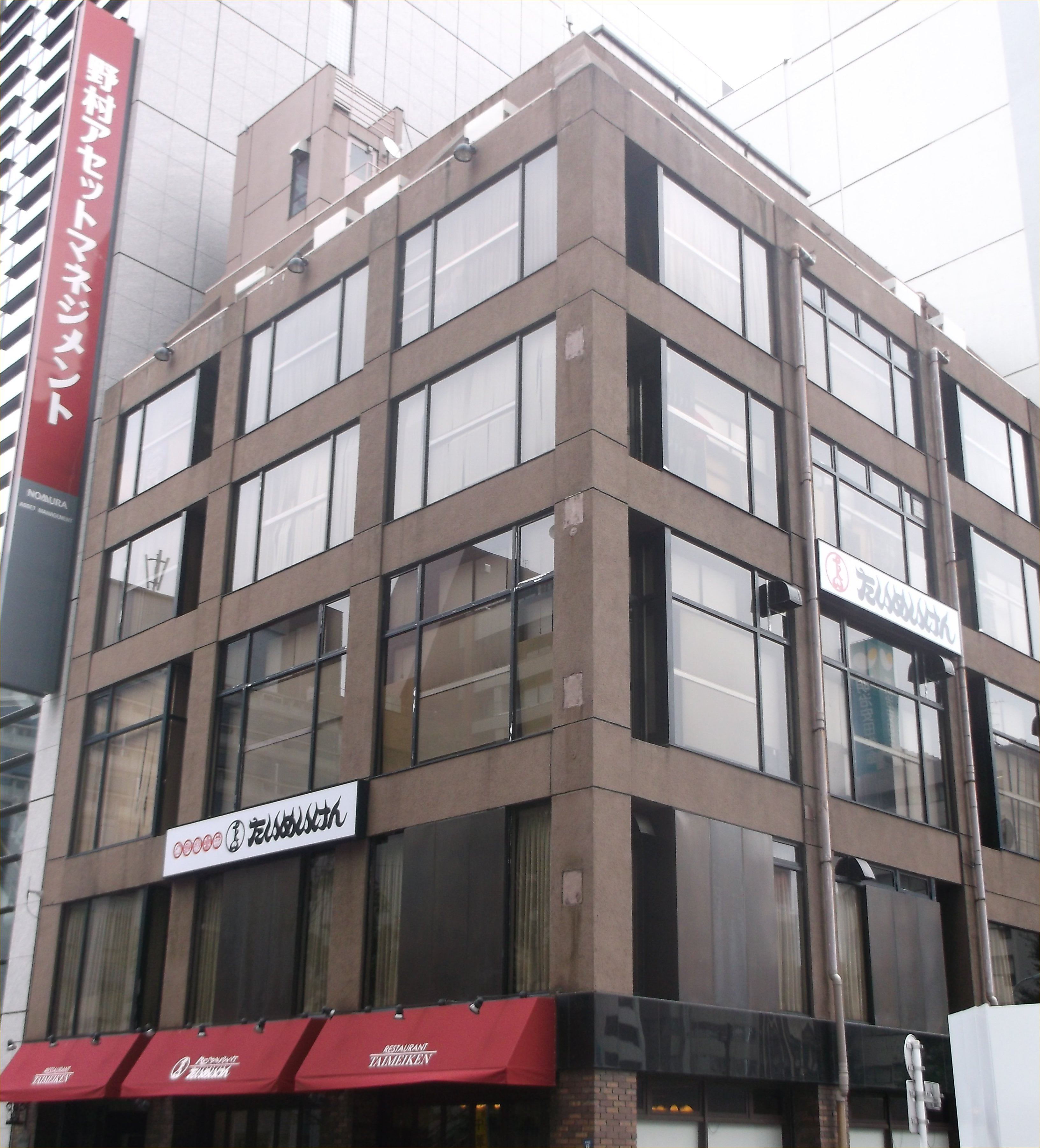 A photo of Yōshoku restaurant"Taimenken",Nihonbashi,Chuo-ku,Tokyo,Japan.